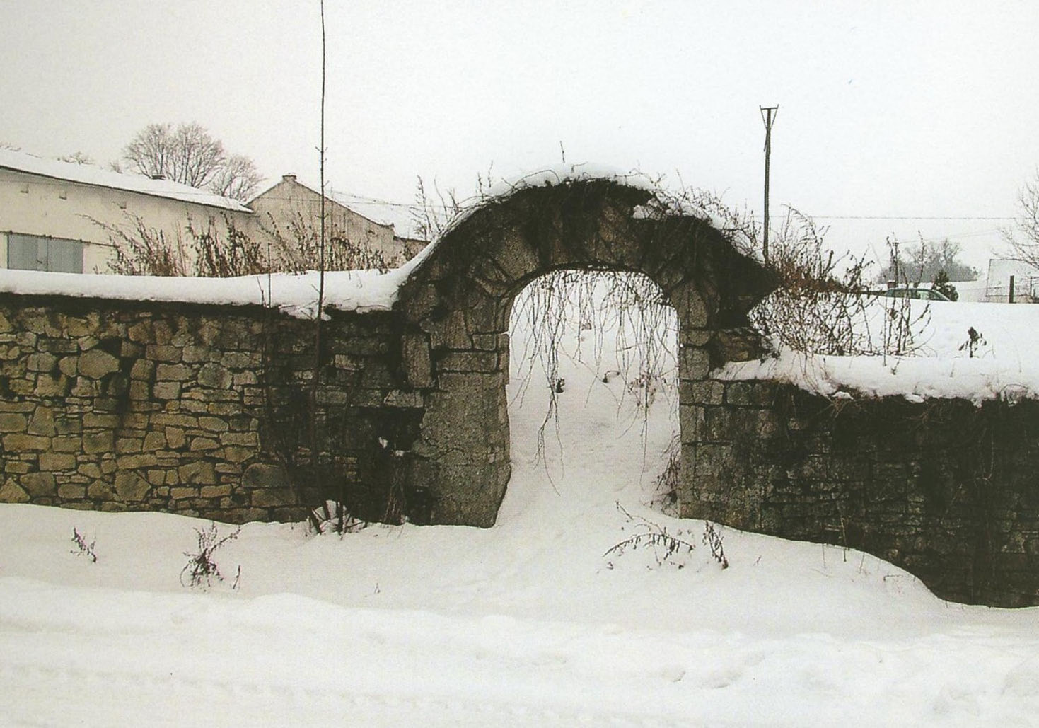 Entrance to the Dominium Chorula (Ruine)